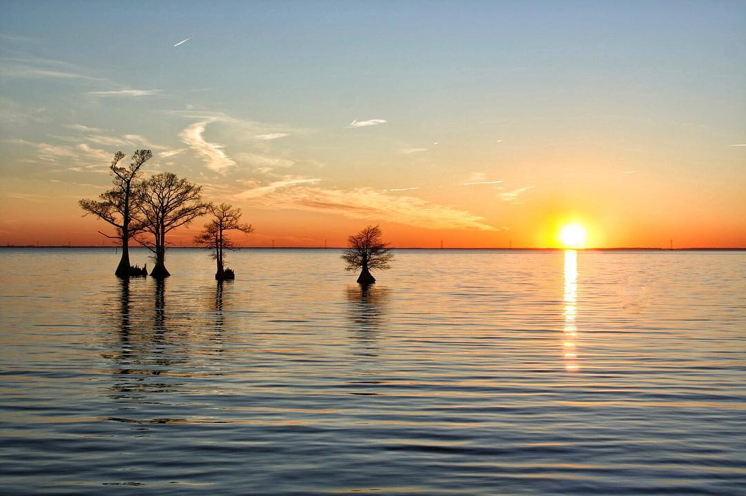 Another pretty view of the Albemarle Sound, near Edenton, NC #TBT